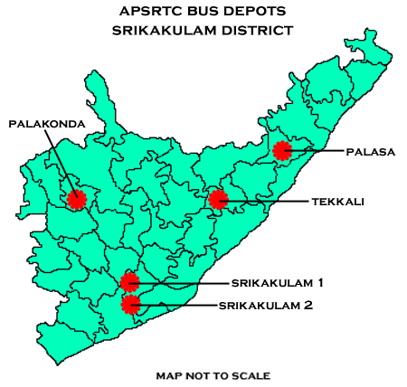 Srikakulam district APSRTC Depot map